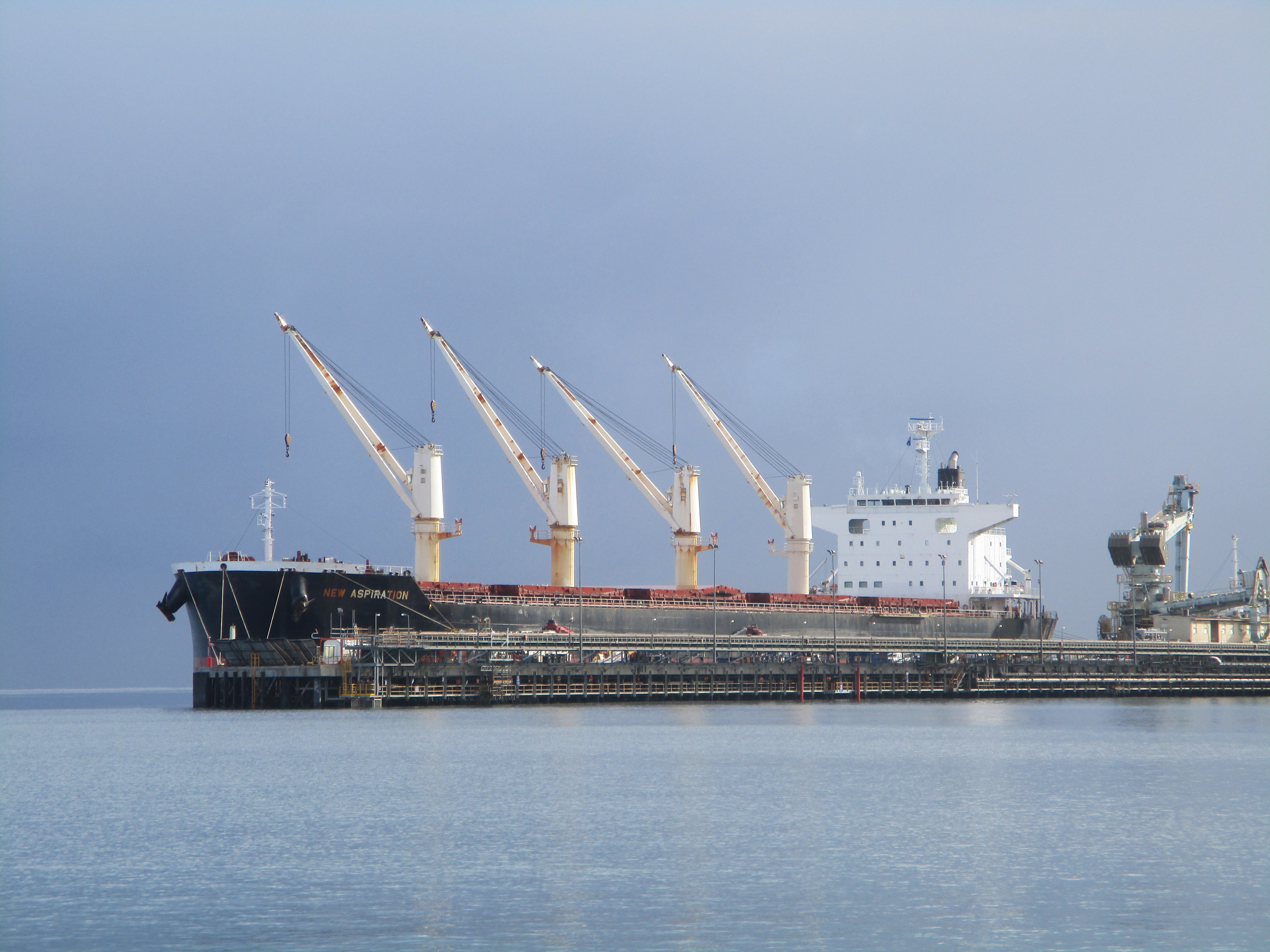 The Kwinana Bulk Jetty, Western Australia. The ship berthed at No. 4 Kwinana bulk berth is the bulk carrier New Aspiration. The ship behind, on No. 3 Kwinana bulk berth, is the Thorco Lanner.